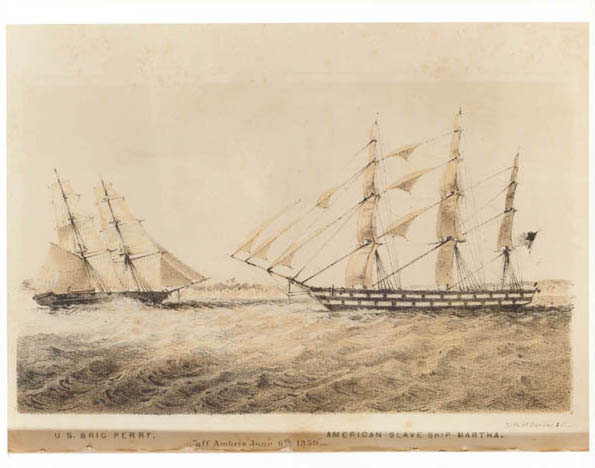 U.S. brig Perry [confronting] American slave ship Martha off Ambriz June 6, 1850. From the book "Africa and the American Flag" by Commodore Andrew Hull Foote who commanded the Perry in 1850.